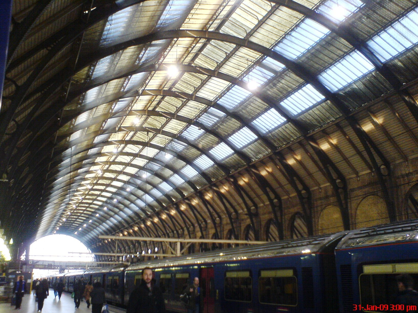 Plaform 8 and the roof of King's Cross Station